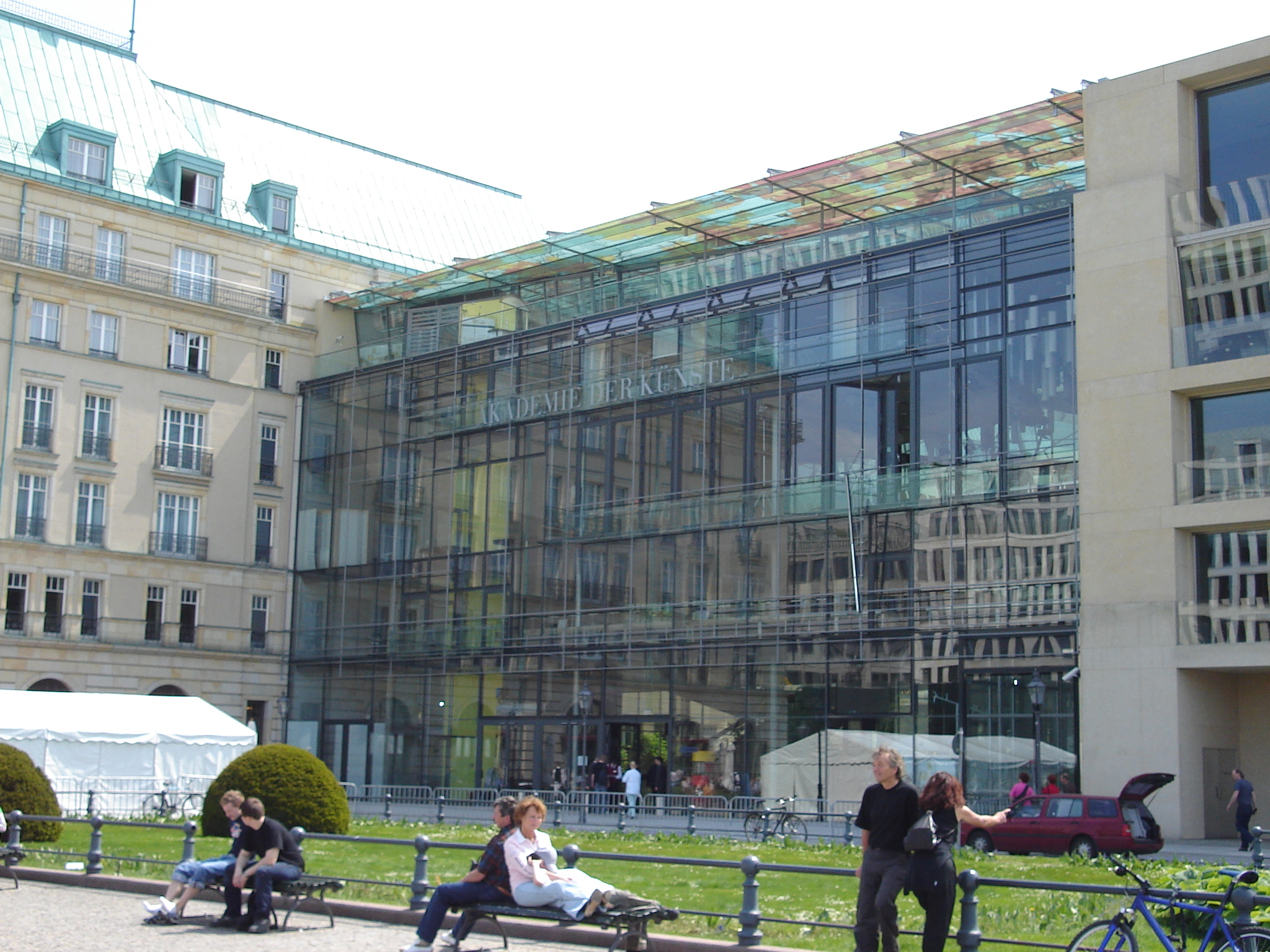 Berlin, Germany: New building of the Akademie der Kuenste (Academy of Arts)